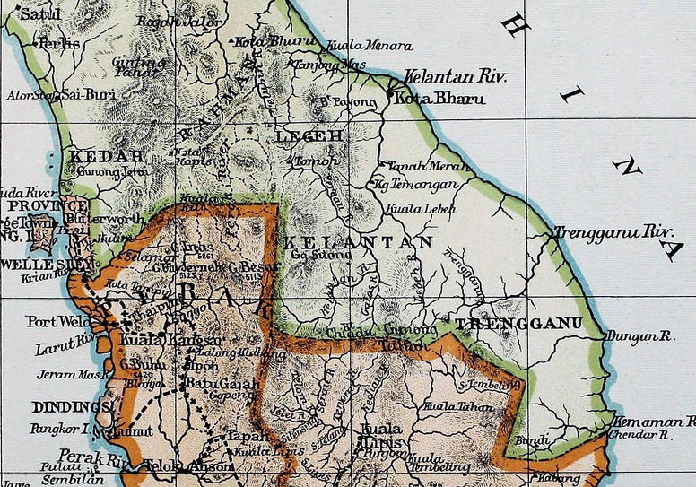 A map from the late 19th century showing the location of Reman, one of the states of Pattani.